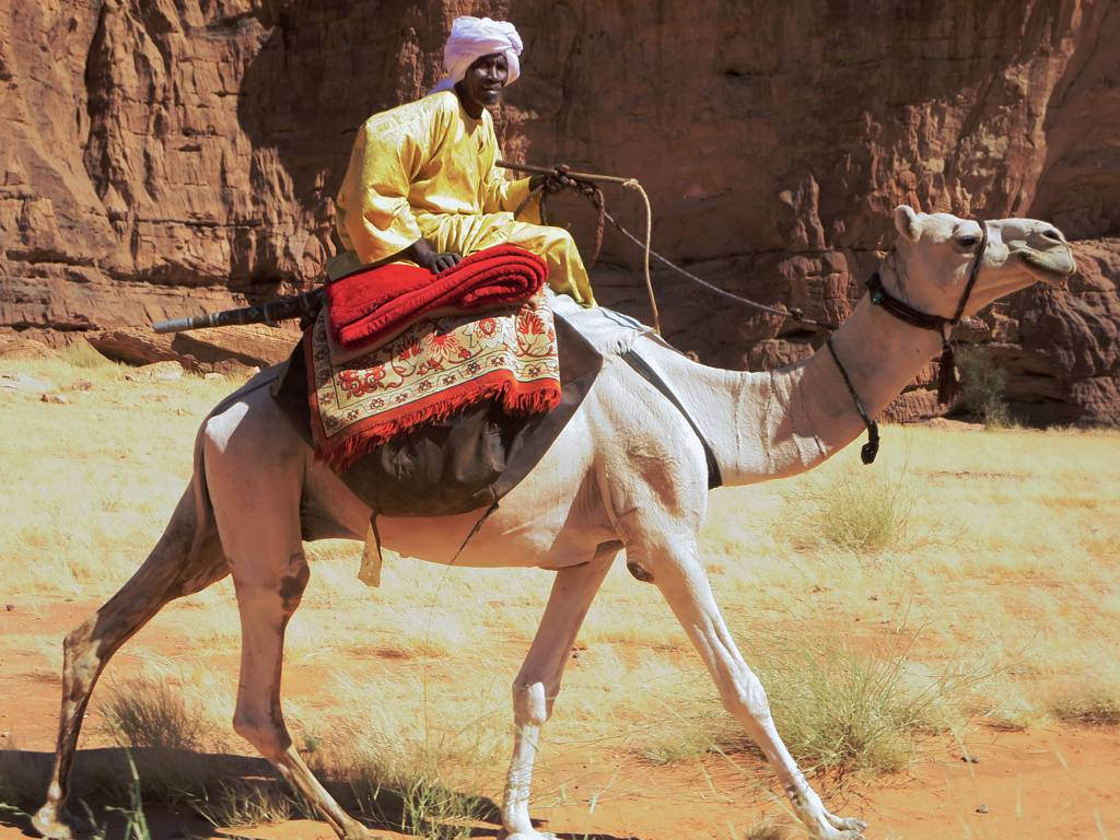 This Toubou man at Tokou in the Ennedi Mountains of northeastern Chad, Central Africa, gets around by camel.